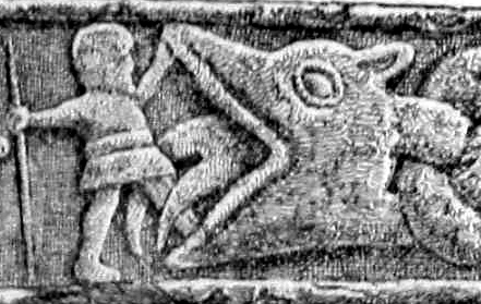 Detail of the Gosforth Cross showing a humanoid figure tear apart the jaws of a monster. Usually interpreted to be Víðarr's battle with Fenrir at Ragnarök.